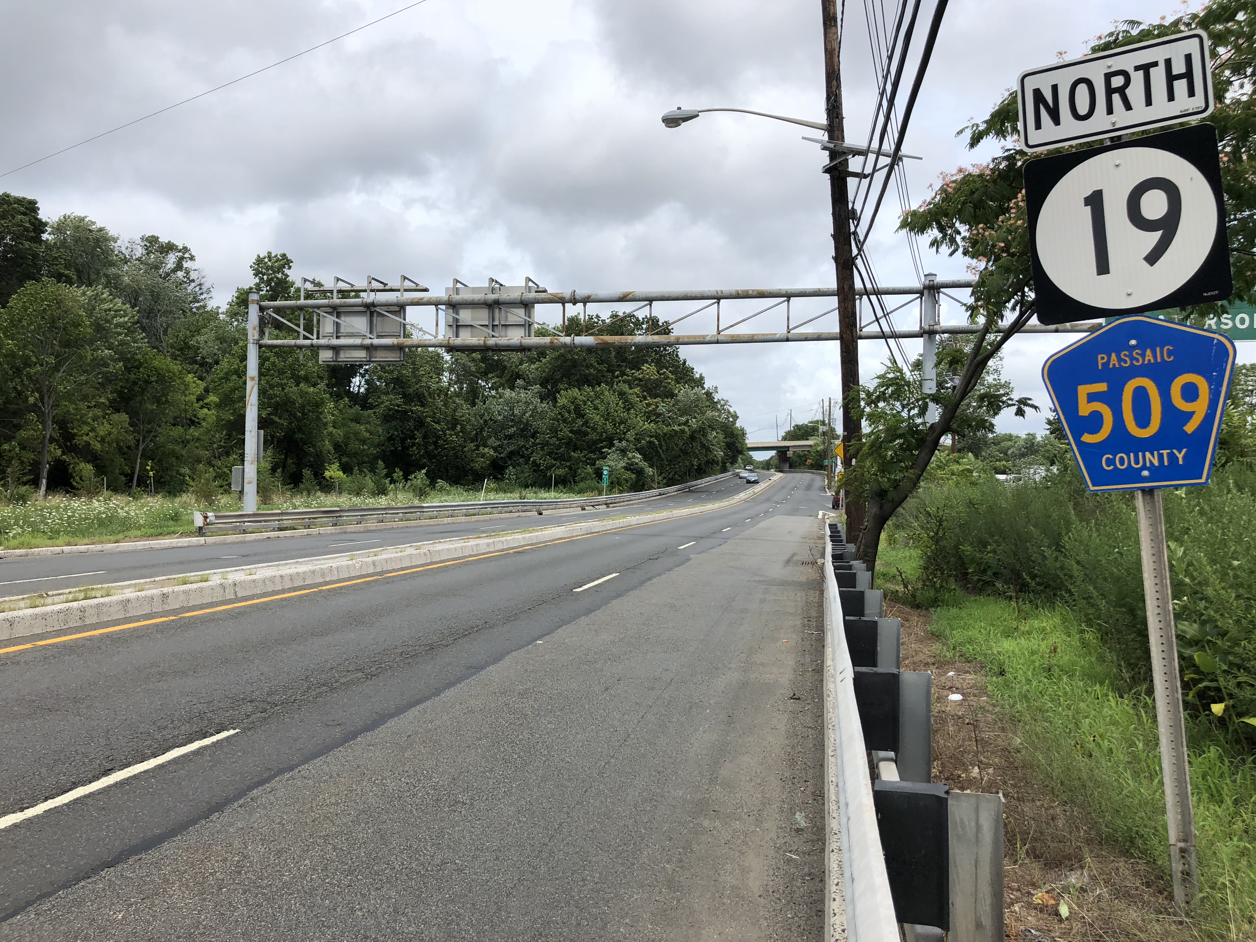 View north along New Jersey State Route 19 and Passaic County Route 509 (Broad Street) just north of U.S. Route 46 in Clifton, Passaic County, New Jersey